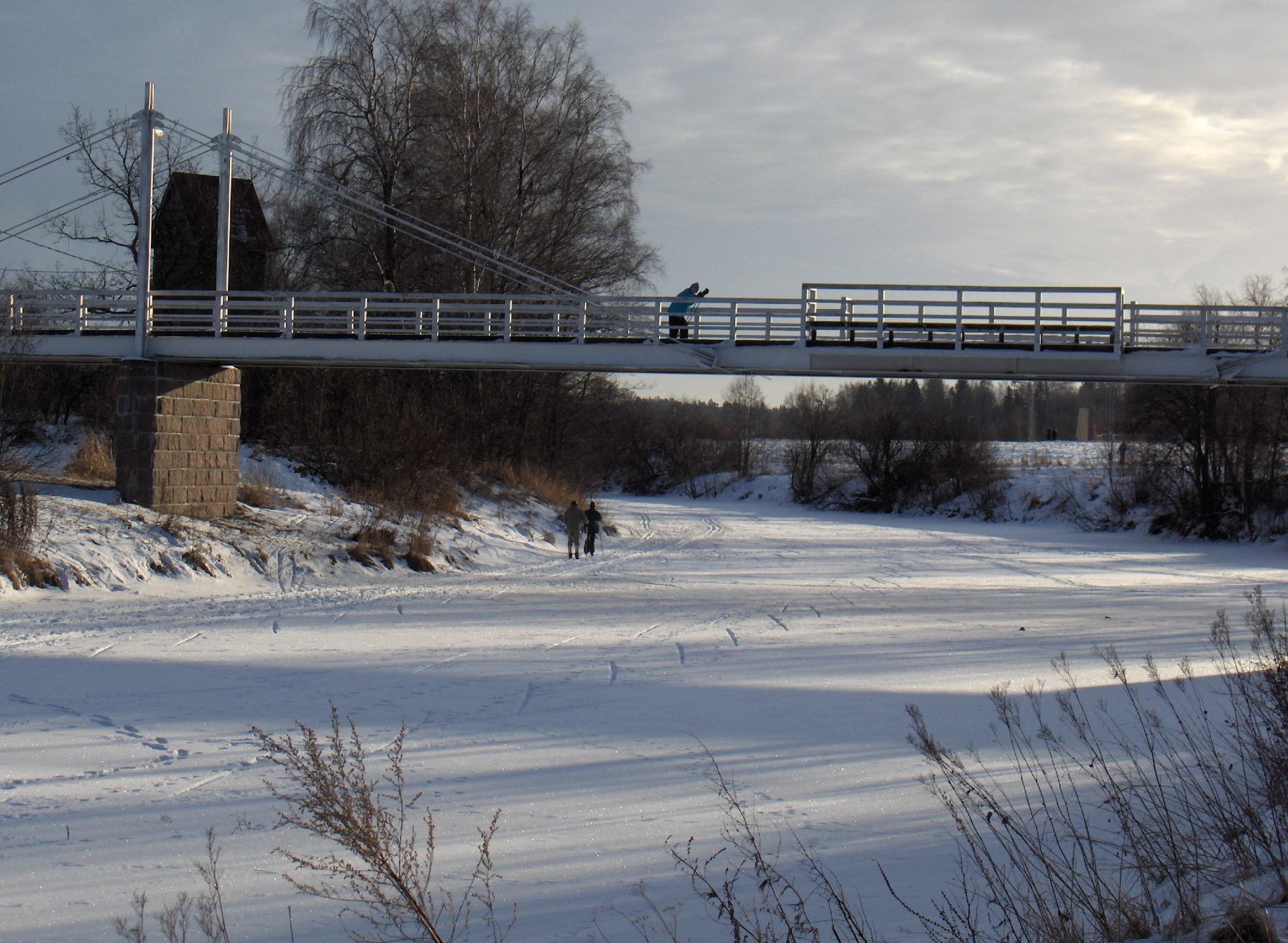 Sunday cross-country skiing in Helsinki